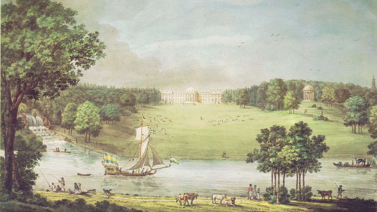 Engraving of Samuel Middiman after a drawing by J. Le Febre. One of the first depictions of Laeken Castle, then named Schonenberg (back)